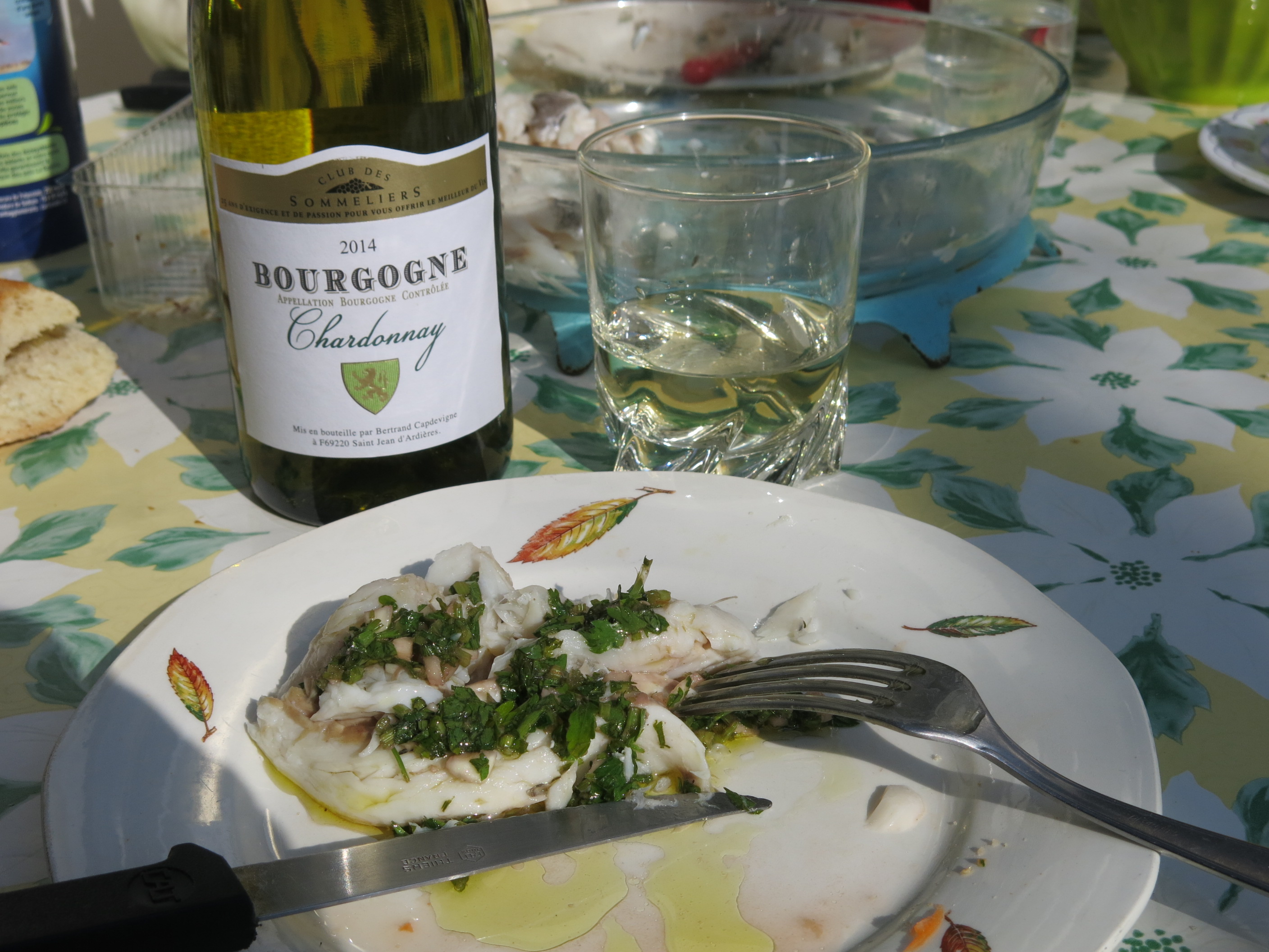 Fillet of burbot and Chardonnay white wine.